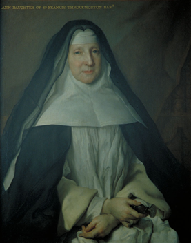 Ann Throckmorton (1664-1734), daughter of Sir Francis Throckmorton, 2nd Baronet (1641-1680)